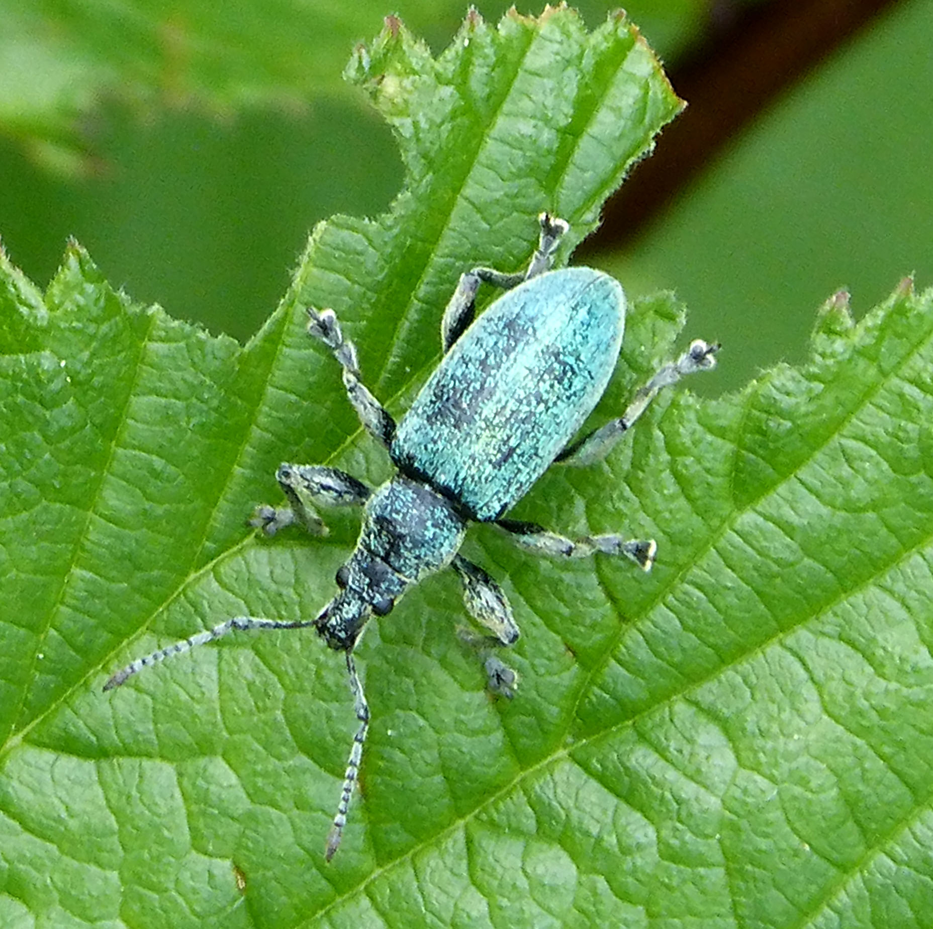 SO802607. Monkwood. Worcs . GB. Two seen